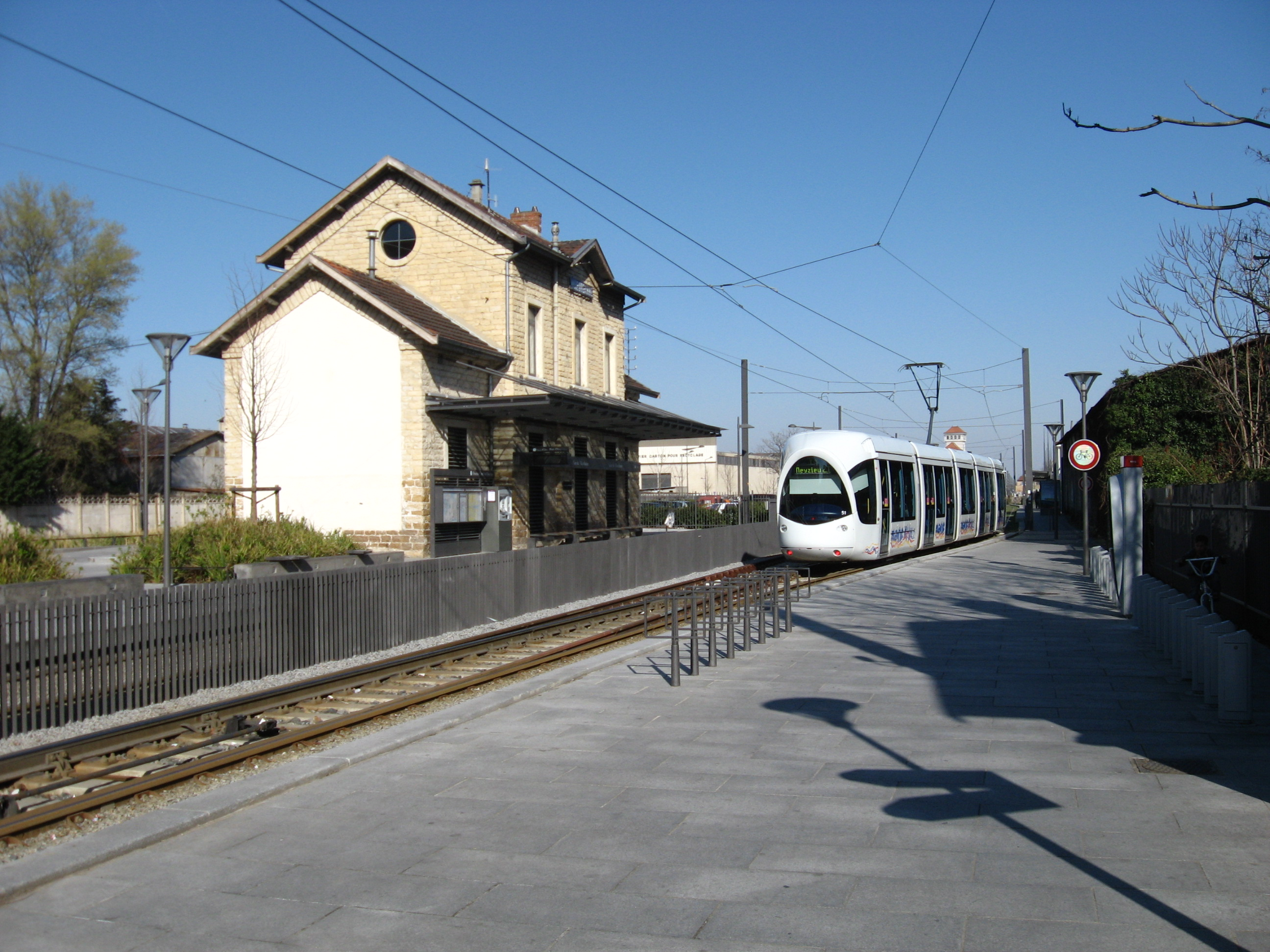 Ex Villeurbanne station of the CFEL railway (see Cat.) being used as tramstop off line 3.